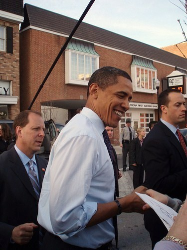 Barack Obama stops in Altoona, Pennsylvania on March 28, 2008